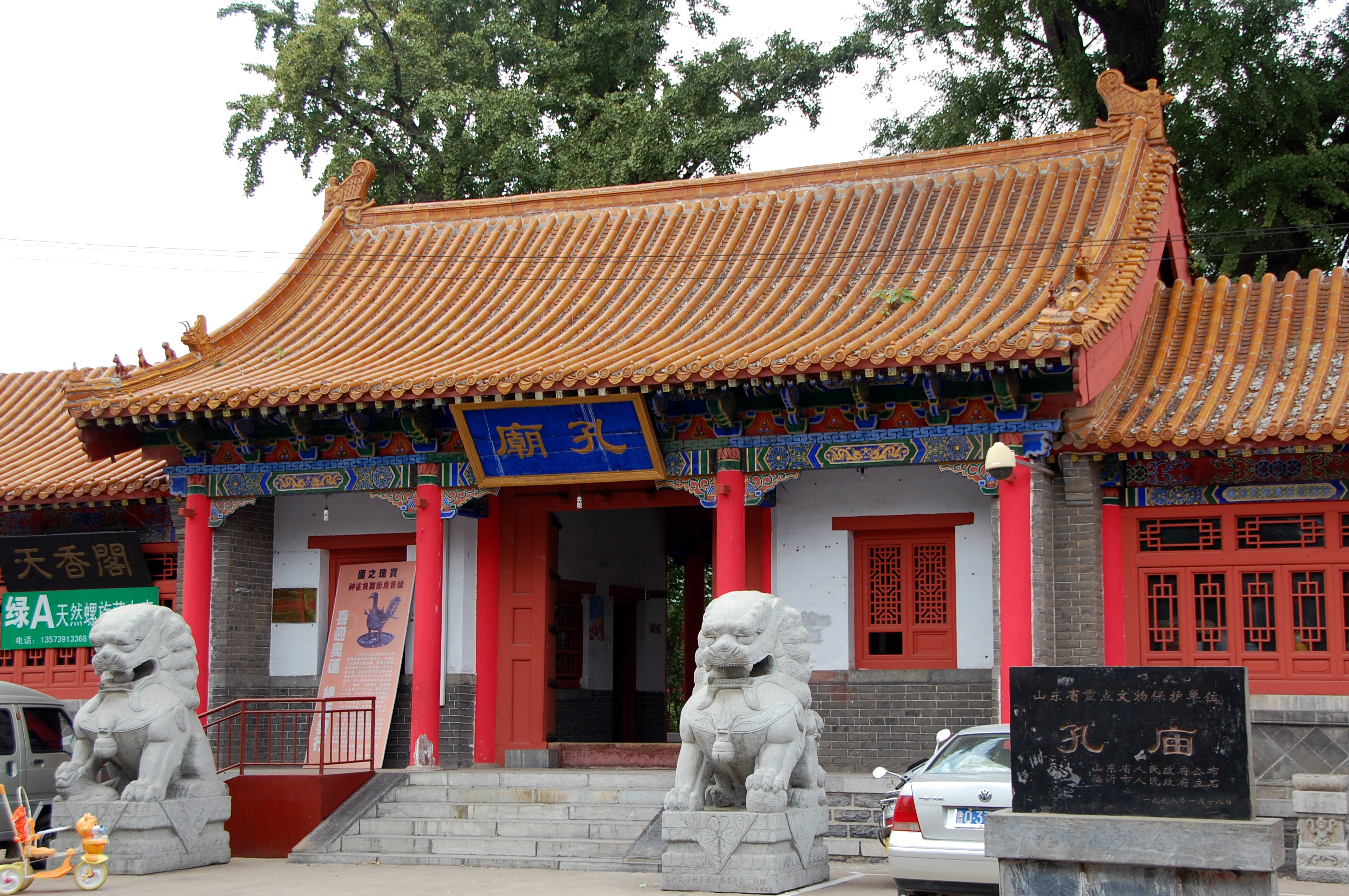 Confucius_Temple_of_Linyi